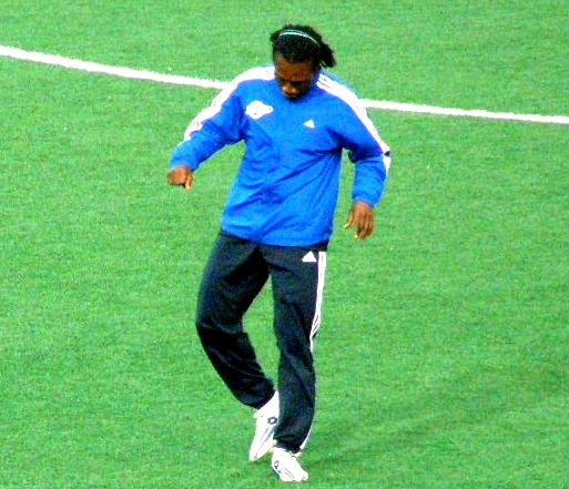 Baffour Gyan warming up for FC Saturn Ramenskoye